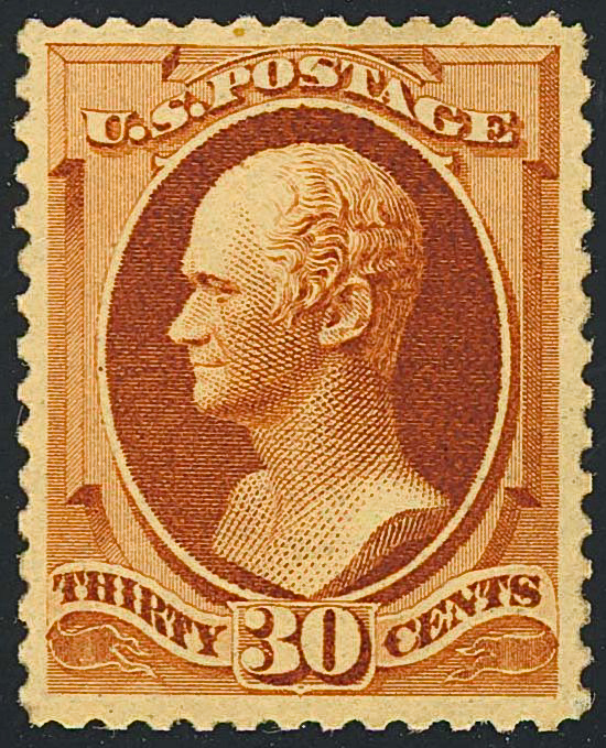 US Postage stamp: 1888 issue, Alexander Hamilton, 30c, red-brown